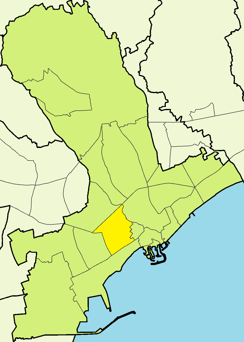 Agios Ioannis in Limassol Municipality